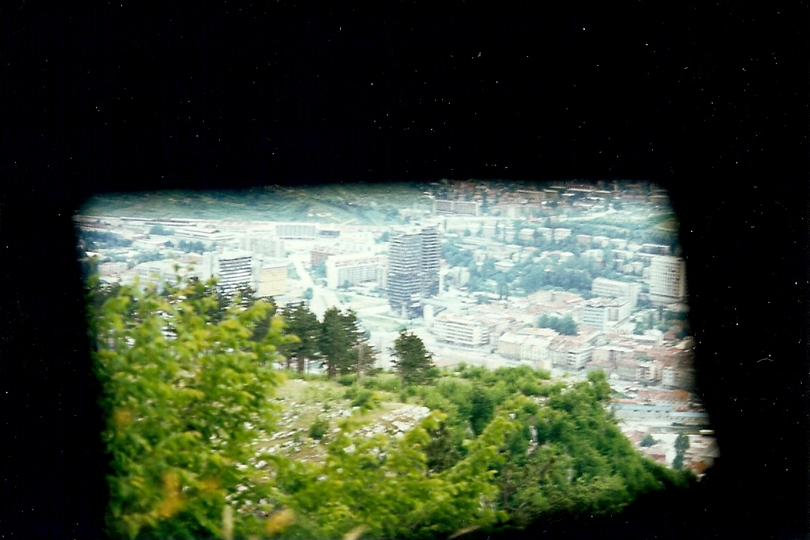 Photo from a serbian position in the mountains overlooking Sarajevo